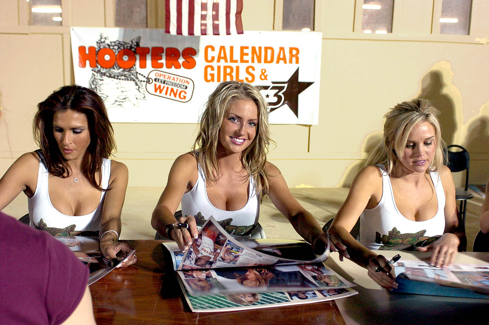 Michelle Moya, Nicki Kretchmer, and Melissa Poe (left to right) sign autographs for the Kandahar Airfield audience after the show June 2, 2004. All three were part of the Hooters’ Operation Let Freedom Wing tour.